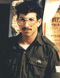 Depicted person: Zechariah Baumel – American-Israeli soldier in the Israel Defense Forces